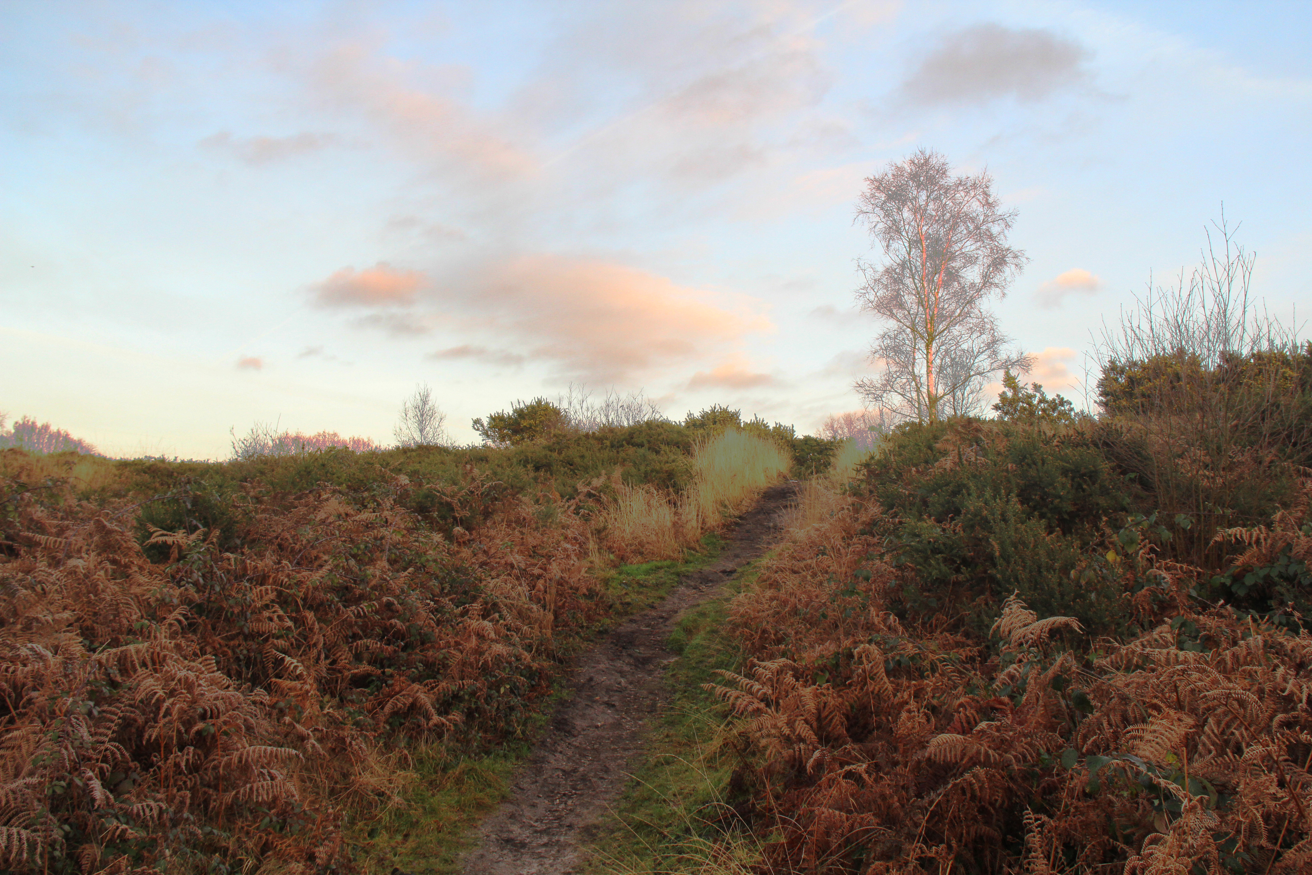 Heathland in the centre of Corfe Hills West, part of Corfe Barrows Nature Park, Dorset, England